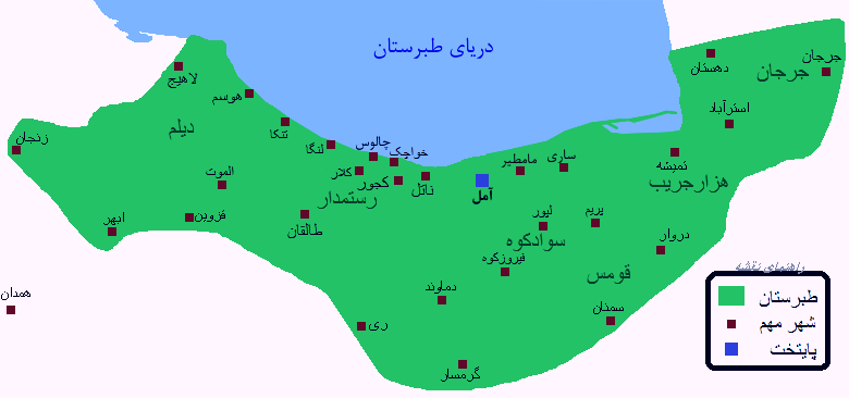 Tabaristan is Mazandaran Province